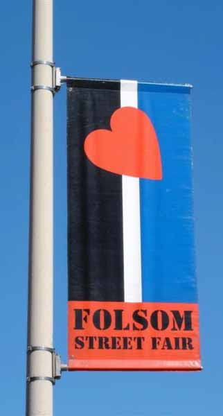 Folsom Street Fair banner (simplified vertical version of Leather pride flag). Photograph taken by Dlloyd using a digital camera in San Francisco, California during Leather Pride Week.